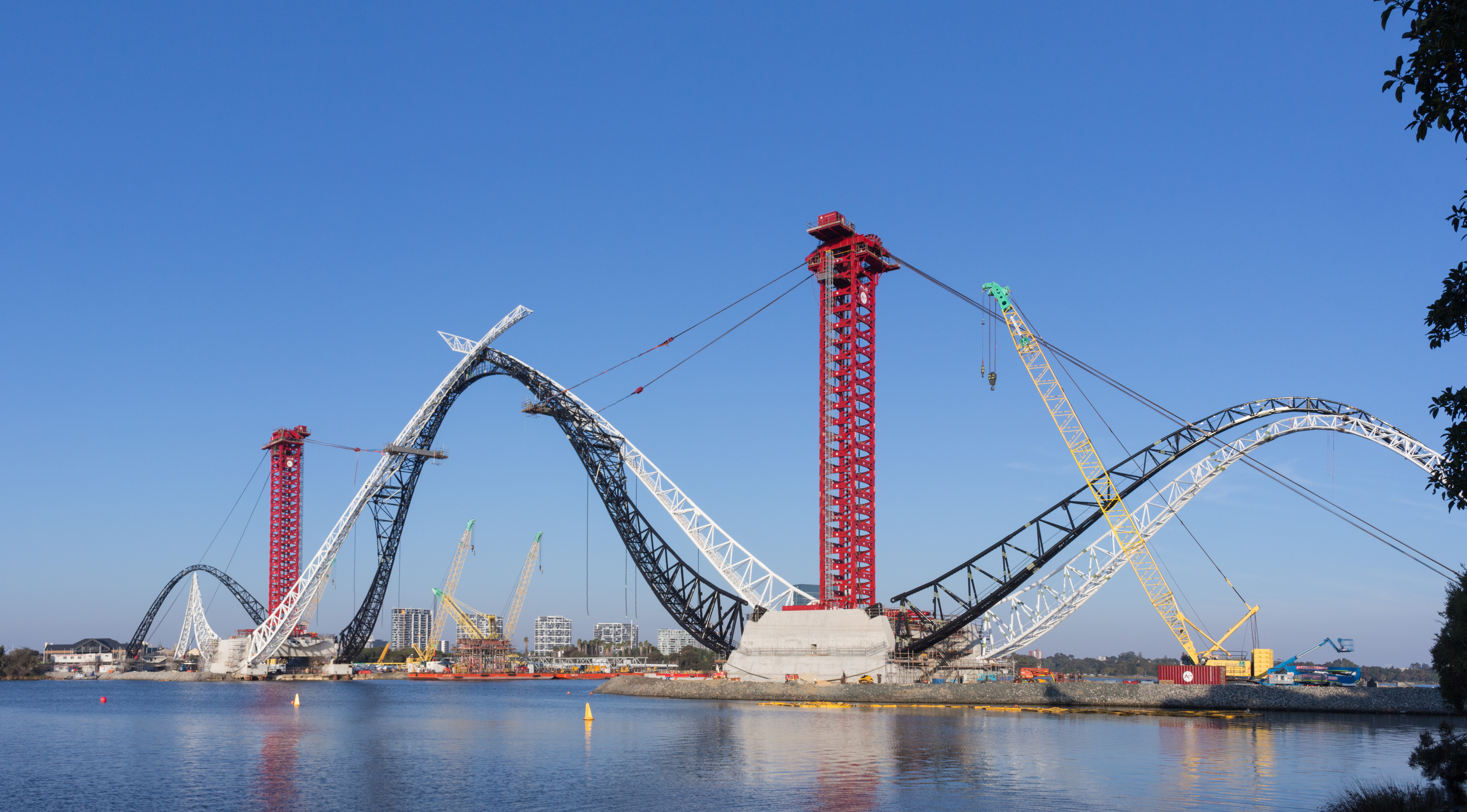 Matagarup Bridge under construction in May 2018. Photographed from East Perth.